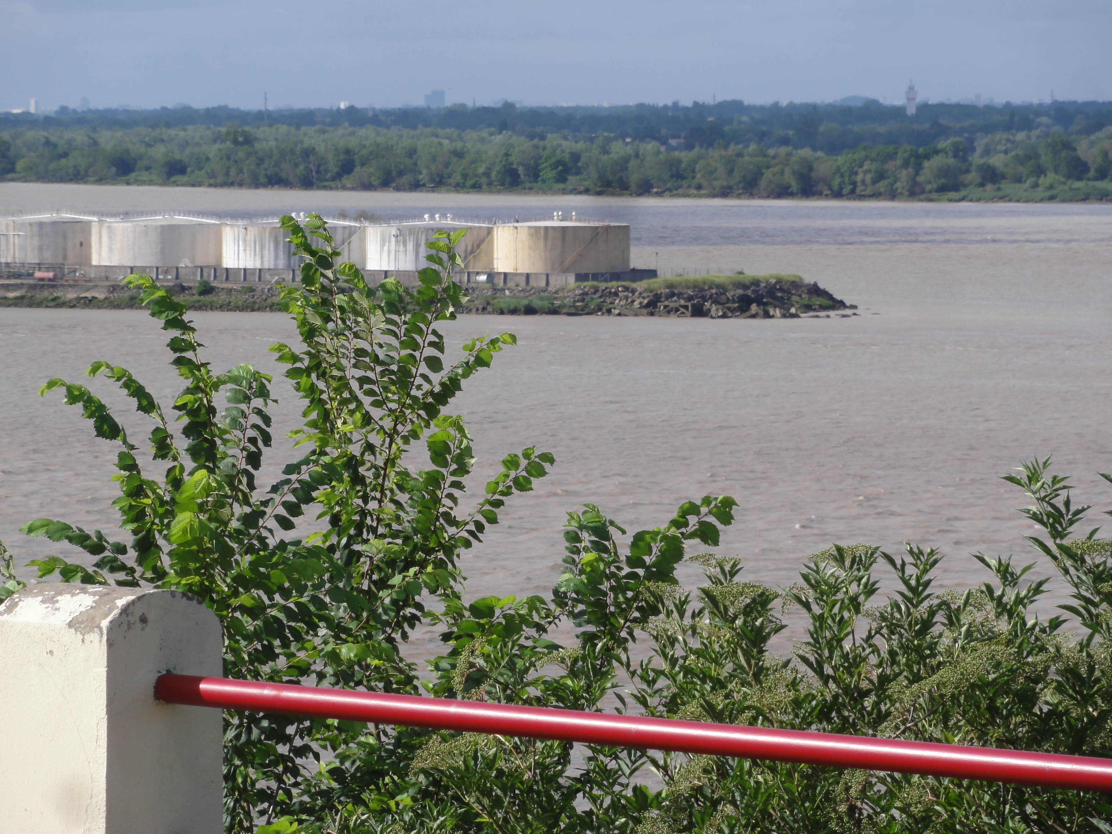 Bayon-sur-Gironde (Gironde) vue sur Bec-d'Ambès 02